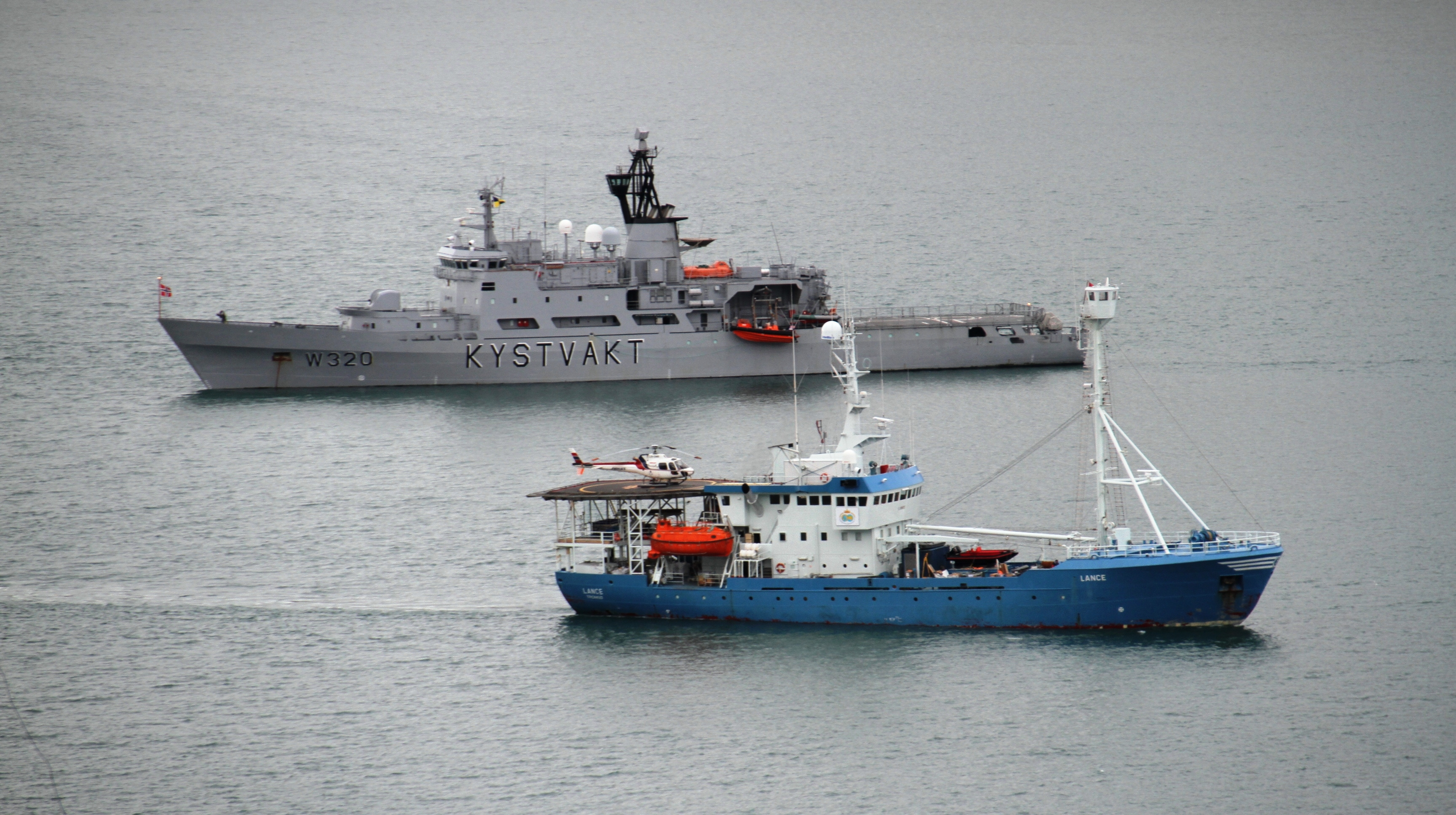 KV Nordkapp, a norwegian coast guard vessel, at bay in Adventfjorden, Longyearbyen (Svalbard). To the right is the Norwegian Polar Research Institute's vessel "Lance".